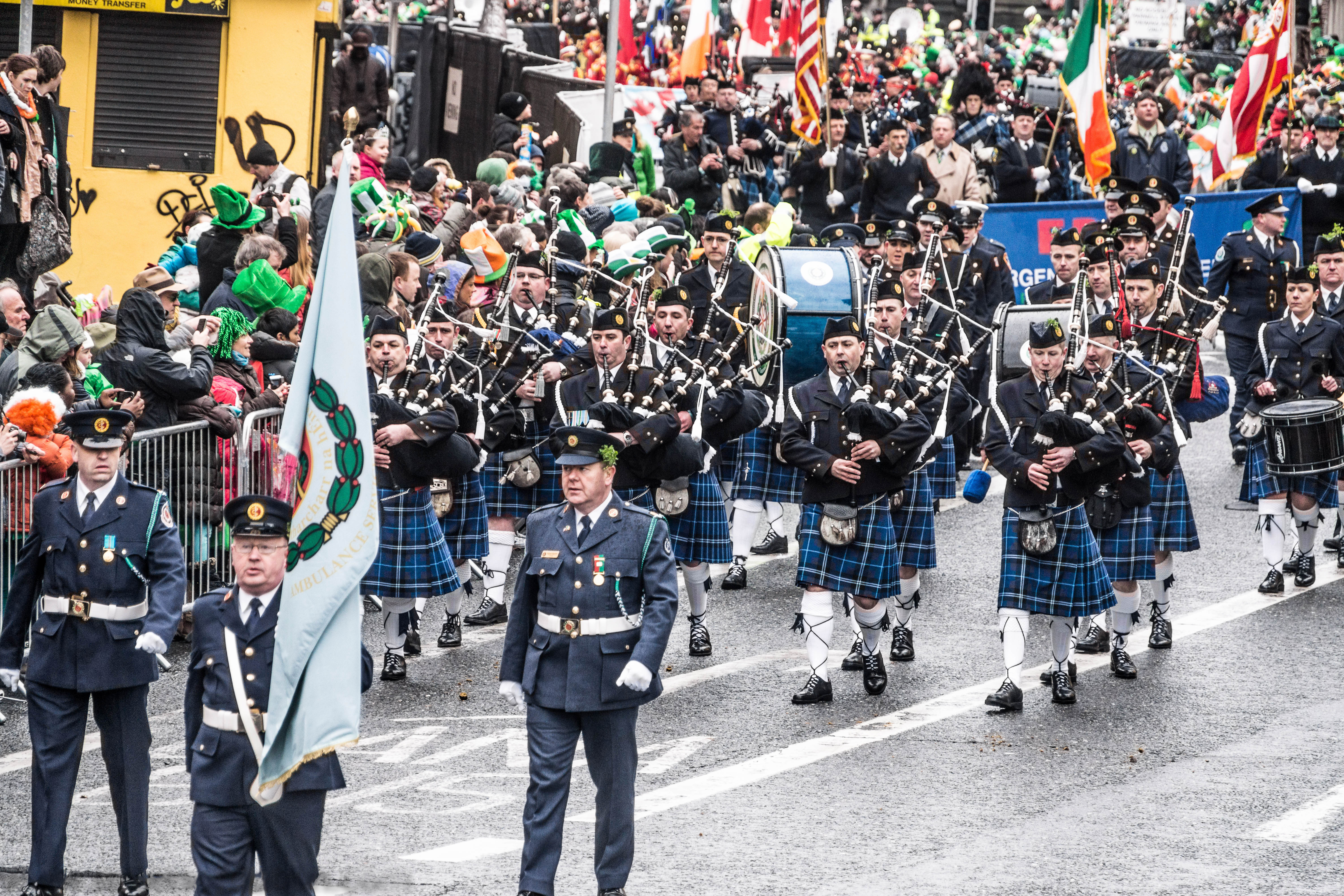 Every year I look forward to photographing the St. Patrick's Day Parade in Dublin and this year was no different. I got up early this morning and looked out my bedroom window window to see what the weather was like and it appeared to be OK. Therefore, when I decided to leave to go to the press briefing I was more than surprised to discover that it was raining very heavy. By the time I got to my destination it was actually snowing (really wet cold snow). Anyway, at the briefing we were introduced to Nicky Byrne. "One of Ireland’s best loved and internationally celebrated pop-artists", Nicky Byrne, acted as Grand Marshal for this year’s St. Patrick’s Festival Parade. "A native of Dublin, Byrne was chosen by Festival organisers for his outstanding contribution to the entertainment industry". After the briefing I decided to have breakfast at a Hungarian restaurant on Bolton Street (great value) instead of photographing the "People's Parade". At about 11:30 as the snow had ceased I decided to check out the media facilities provided by the organizers and much to my surprise there were very few spectators along the planned route. The weather appears to have had an impact on the number of people who attended the event. I was located on a bus (an excellent platform for photographers) at the corner of Parnell Square and I was surprised to see that there were very few onlookers compared to previous years when it was almost impossible to find a good position from which to view the the parade.